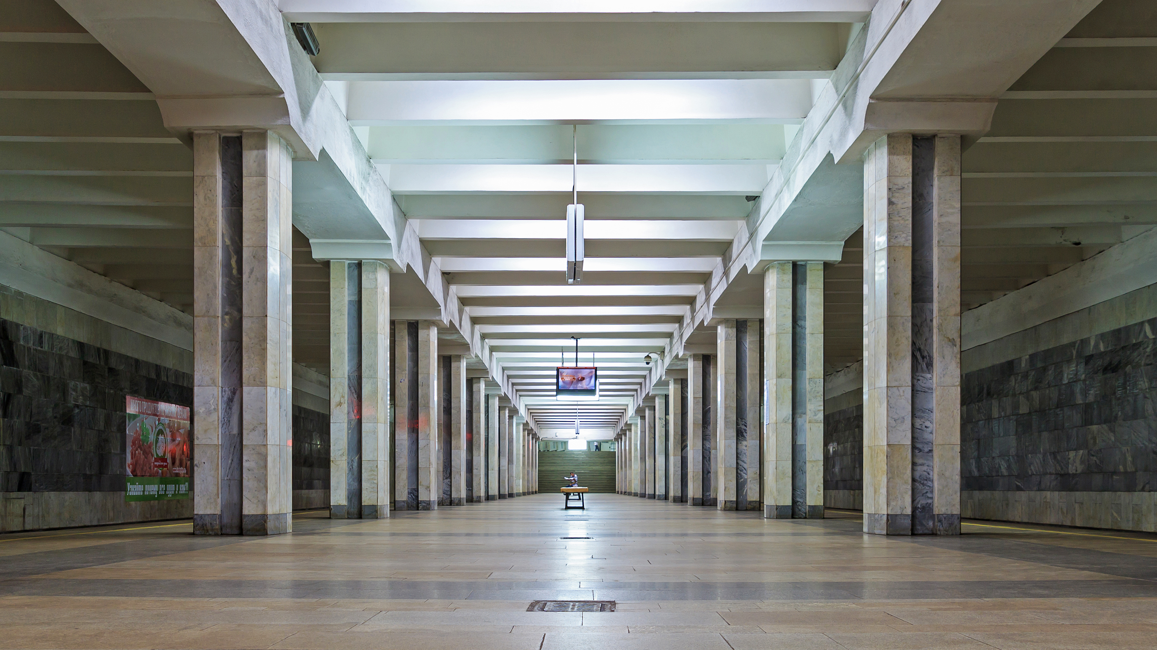 Kirovskaya metro station in Nizhny Novgorod, Russia.